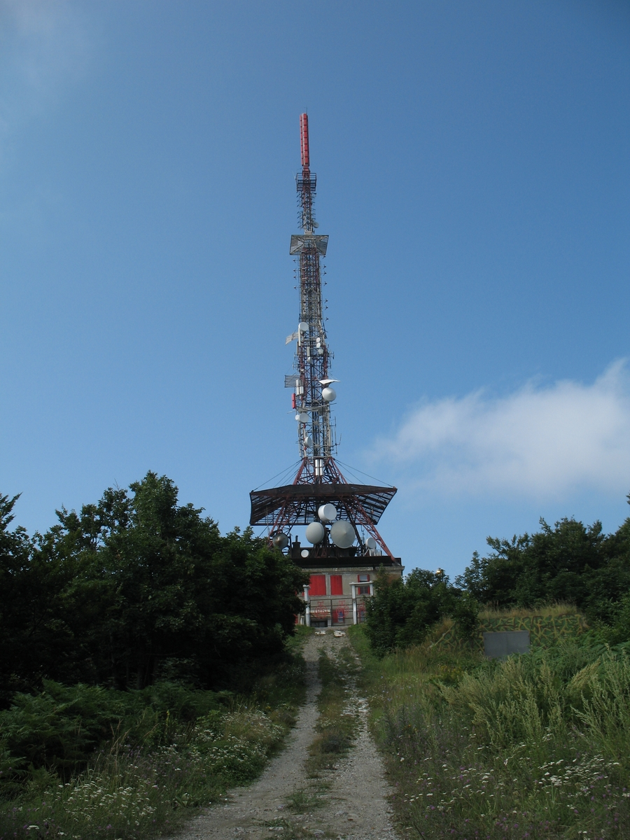 TV tower on highest pick of Deli Jovan mountain in eastern Serbia, near Negotin